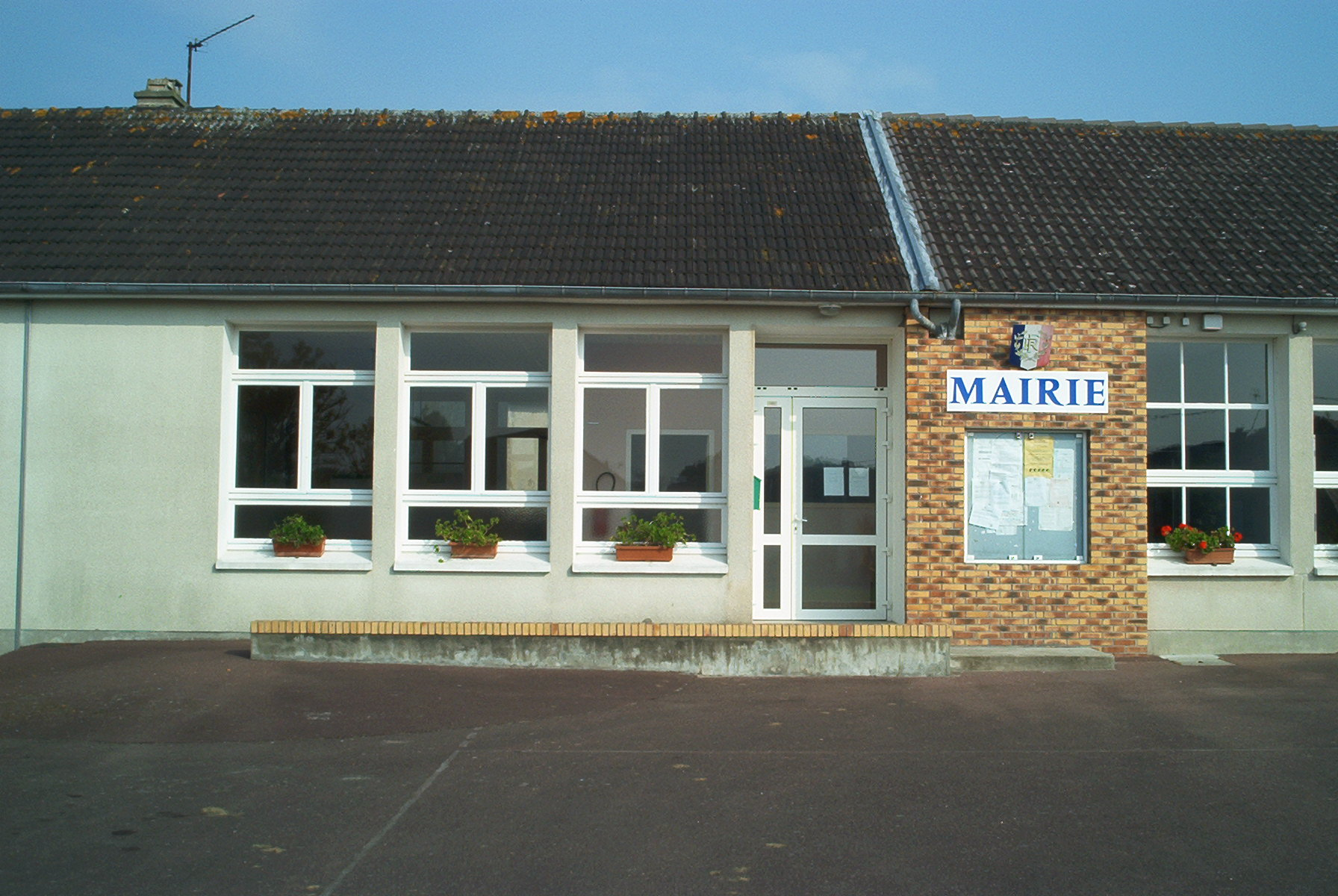 Town hall of Millières, (Manche)